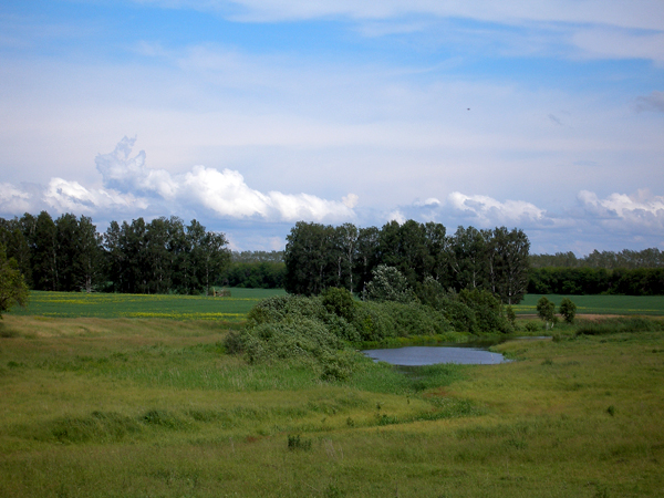 Birch forests (kolki) in Altai Krai